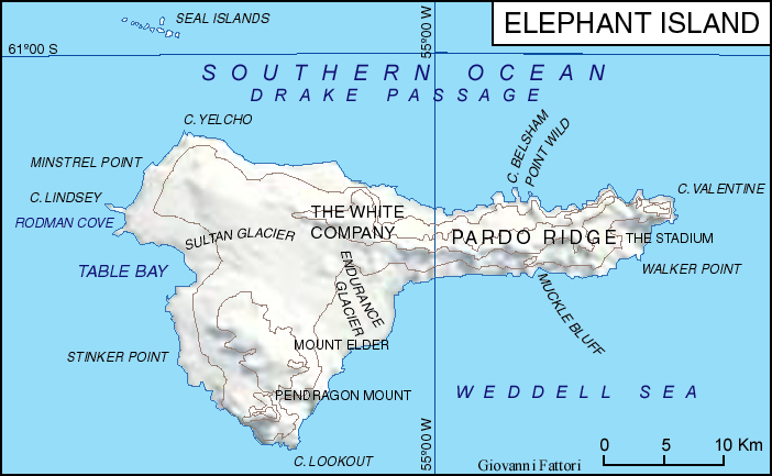 Map of Elephant Island, relief